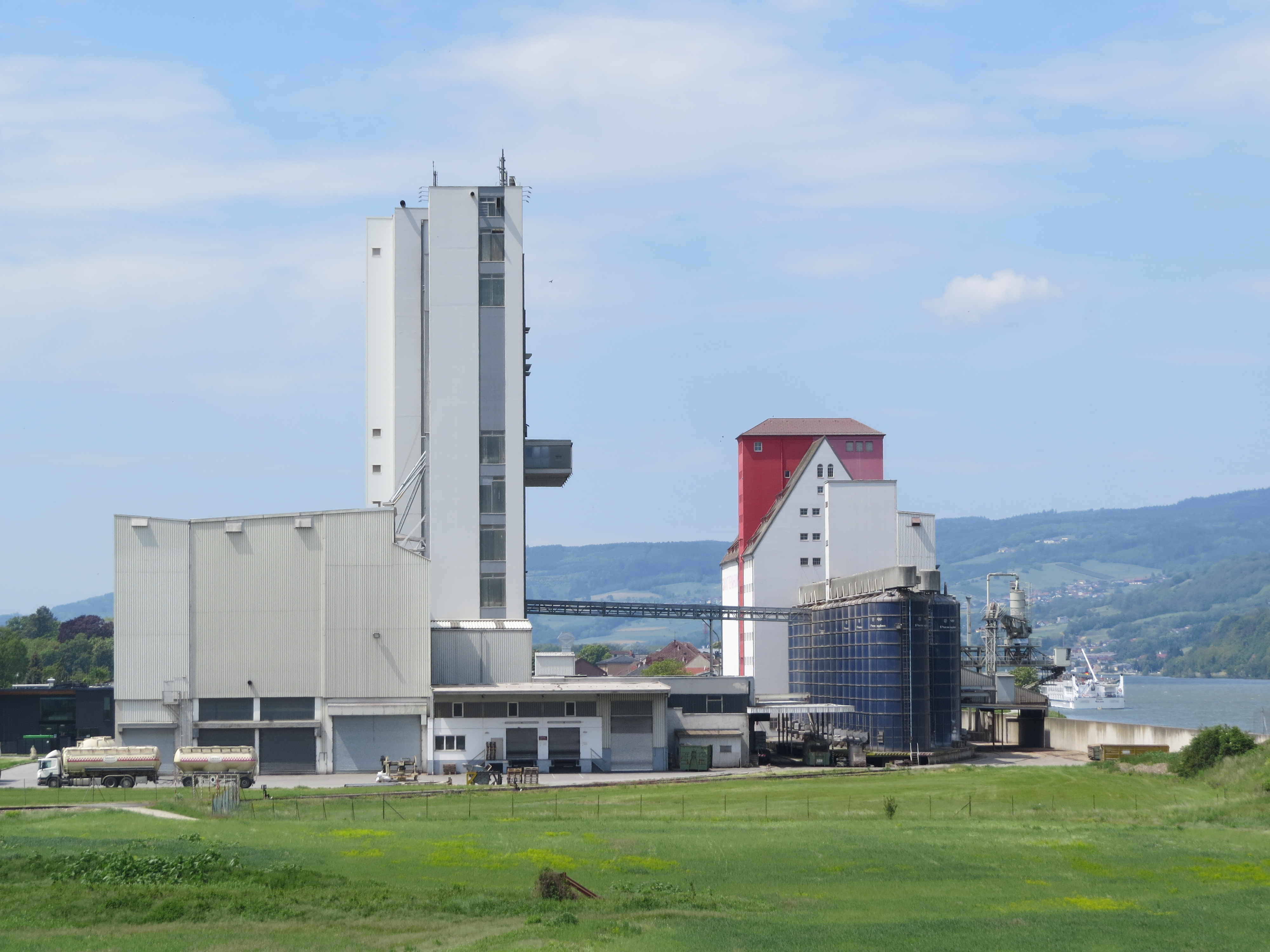 Garant-Tiernahrung in Pöchlarn, Austria